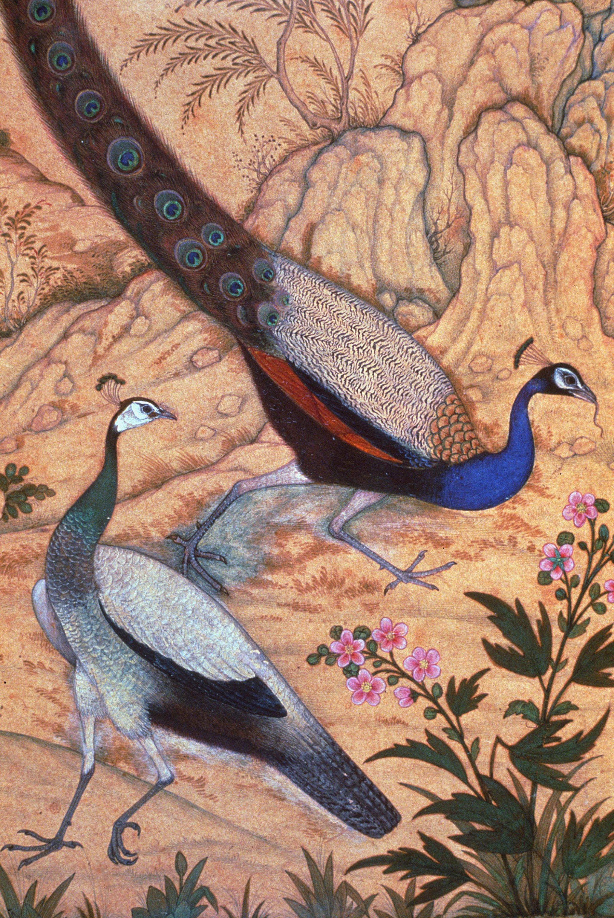 Illustration by Ustad Mansur, known as Nãdir-al-’Asr ("Unequalled of the age"). 17th century Mughal artist.